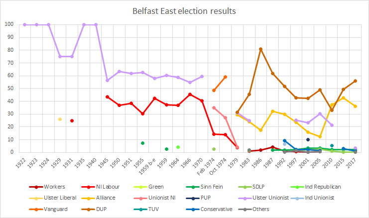 Belfast East election results